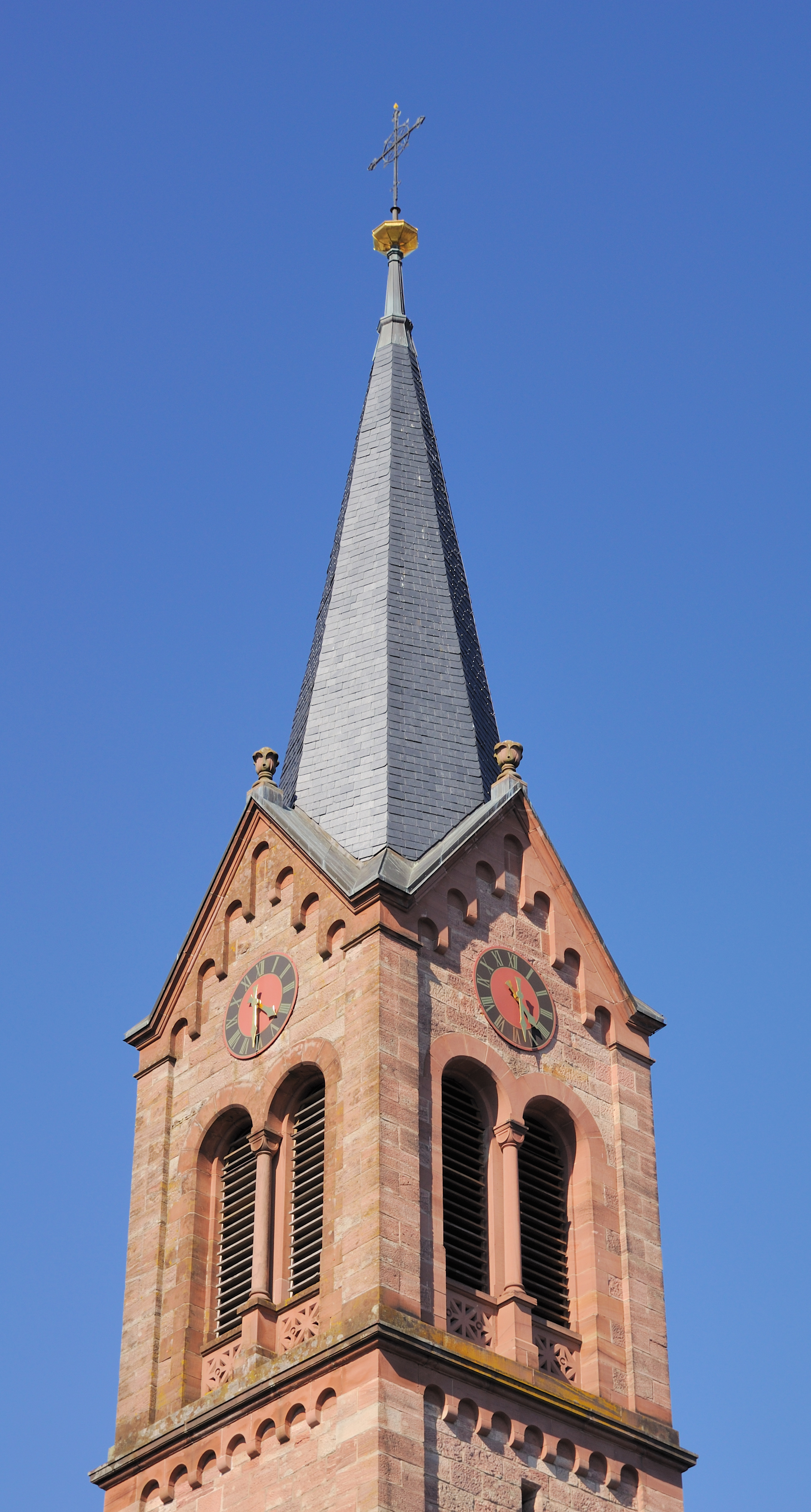 Schopfheim: Catholic Church